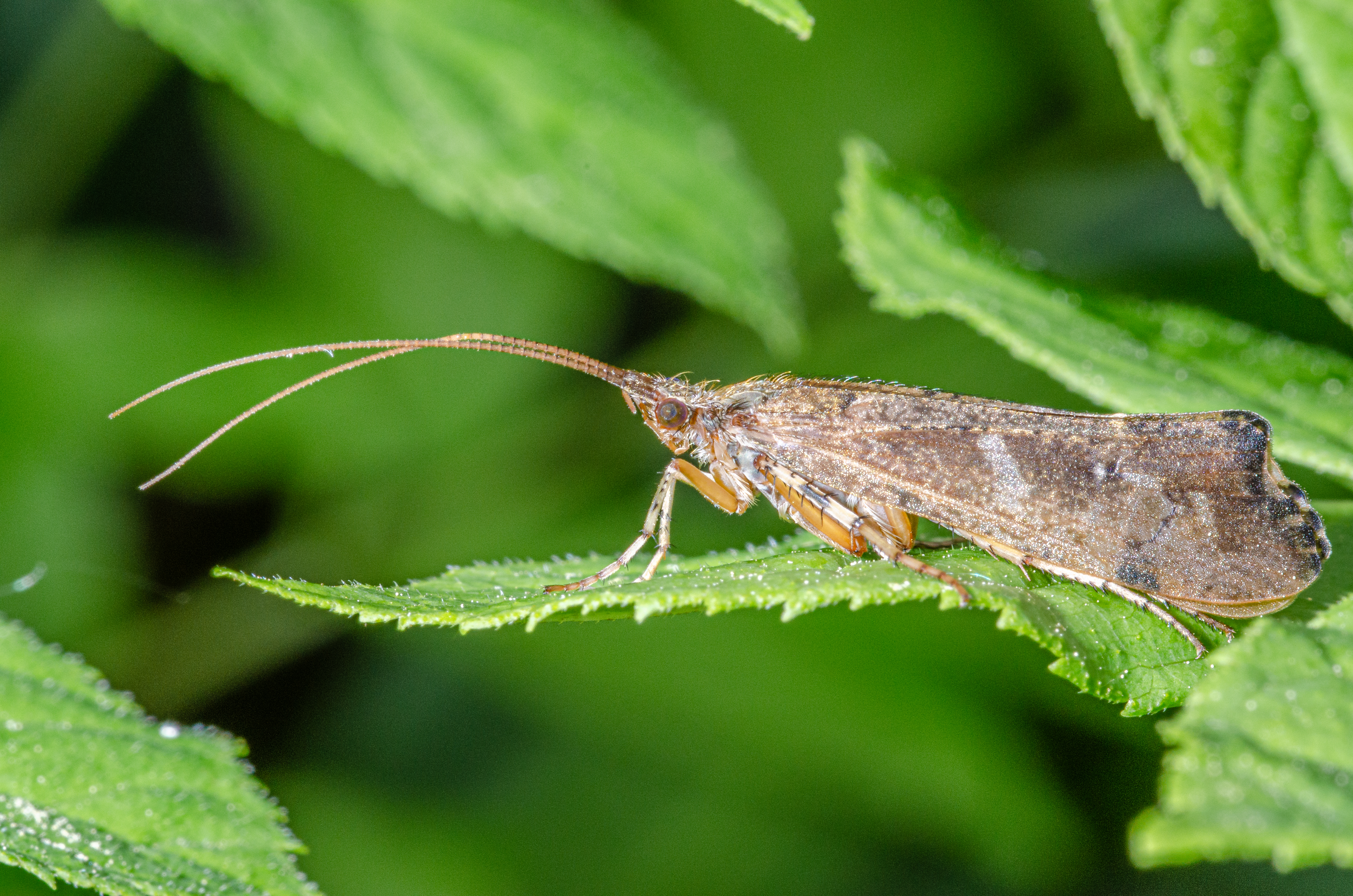 Caddisfly (Glyphotaelius pellucidus, family Limnephilidae). Picture taken at a forest pond near Stuttgart, Germany. Thanks to for the identification.